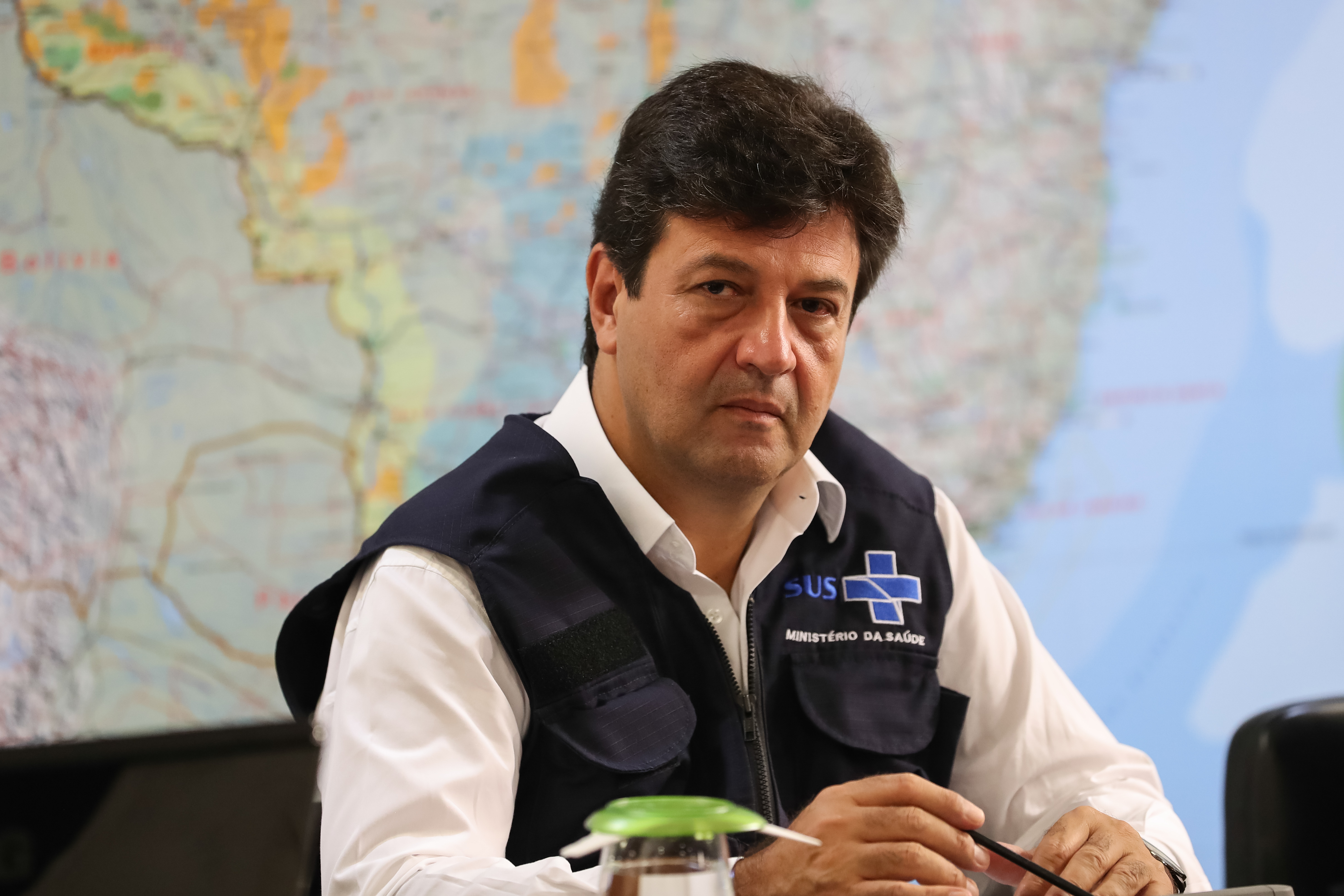 (Brasília - DF, 24/03/2020) Ministro de Estado da Saúde, Luiz Henrique Mandetta durante Videoconferência com Governadores do Centro-Oeste. Foto: Marcos Corrêa/PR